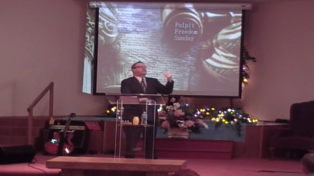 For the 4th year pastors have reclaimed their proper place in the pulpit preaching Gods Word against the ill our nation is faceing and calling out those lifestyles that oppose Gods Word. Being Watchmen on the wall according to Ezekiel Chapters 3 and 33. An initiative of Alliance Defending Freedom.